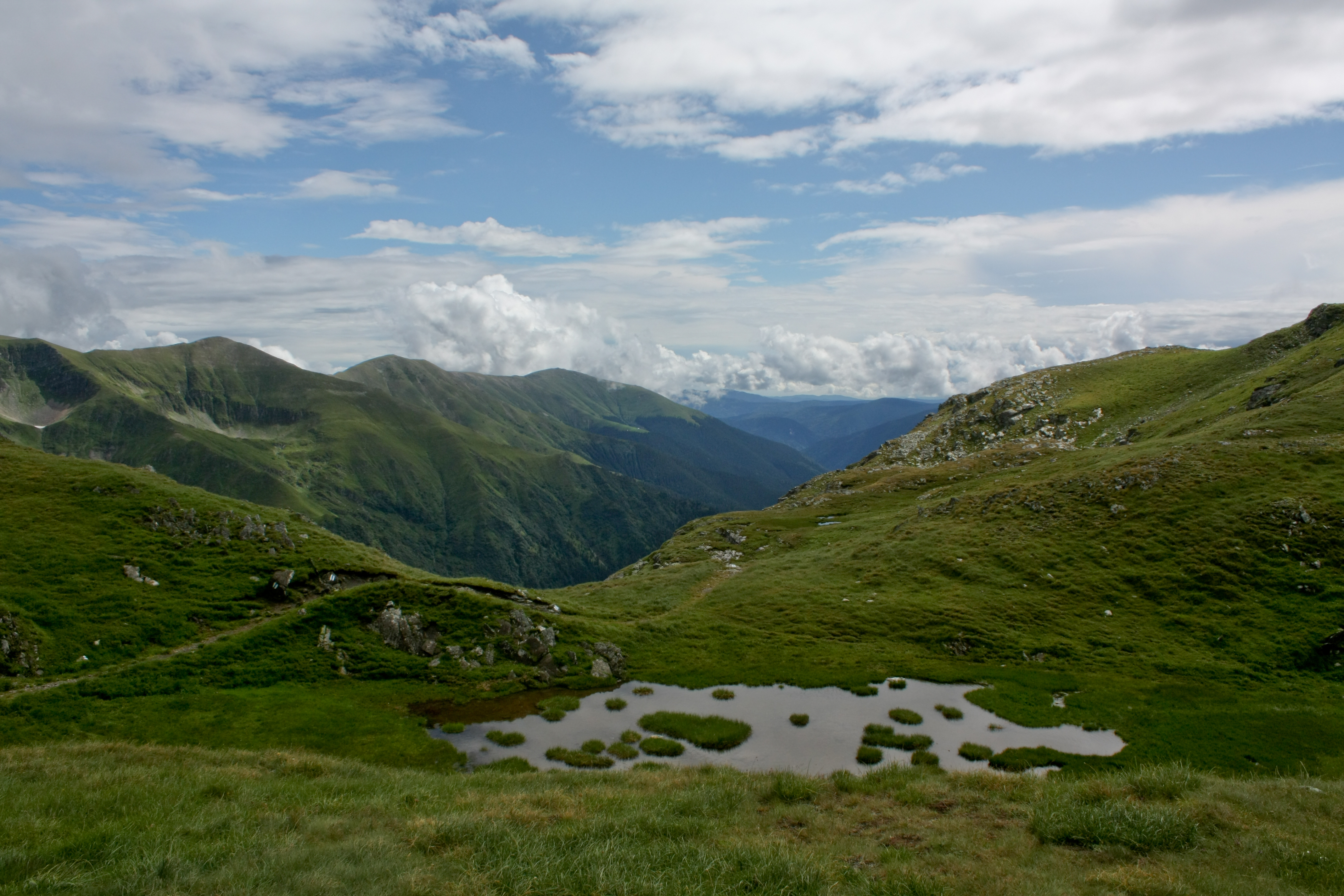 Făgăraş Mountains, Romania - Lake Capra